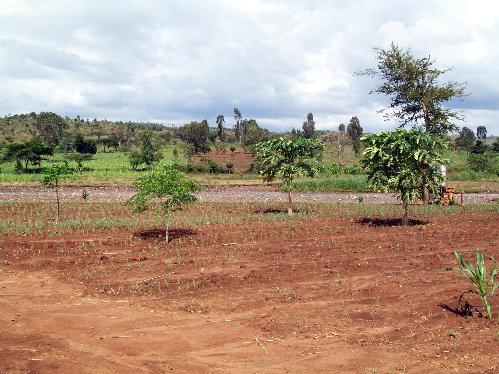 Taktu planted 40 food and fodder producing trees, dispersed in his field, 11 months ago